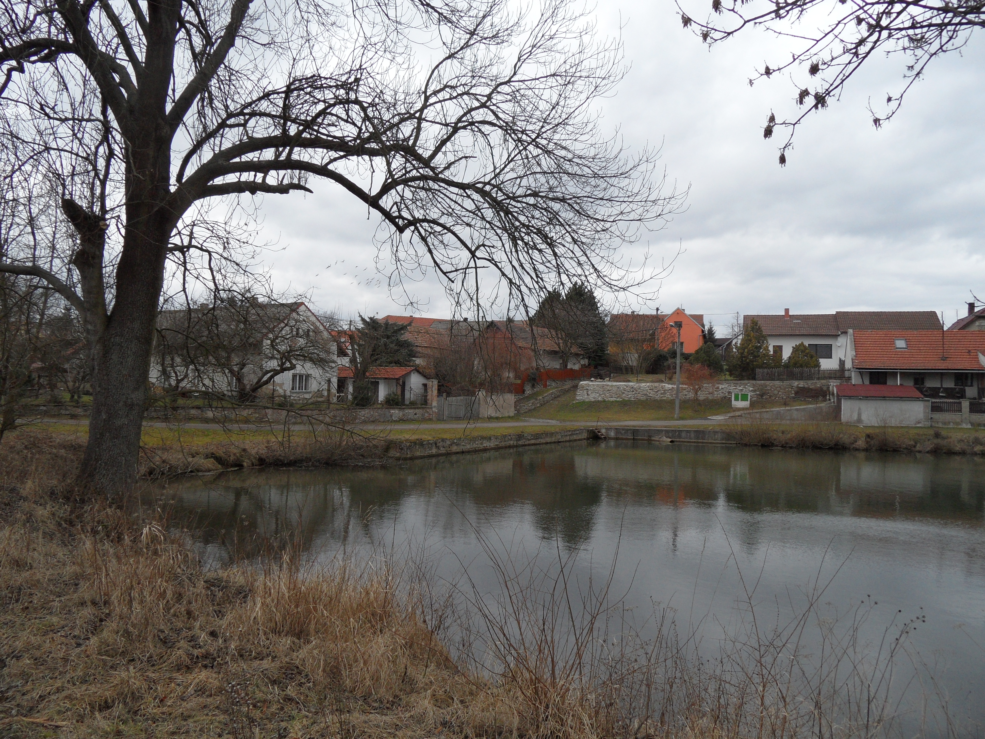 Zalešany A. Housing around Nameless Pound, Kolín District, the Czech Republic.